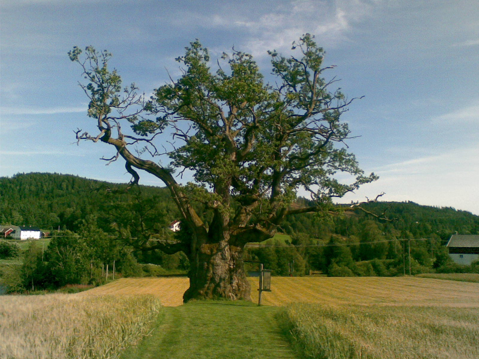 Mollestadeika, Birkenes, Norway